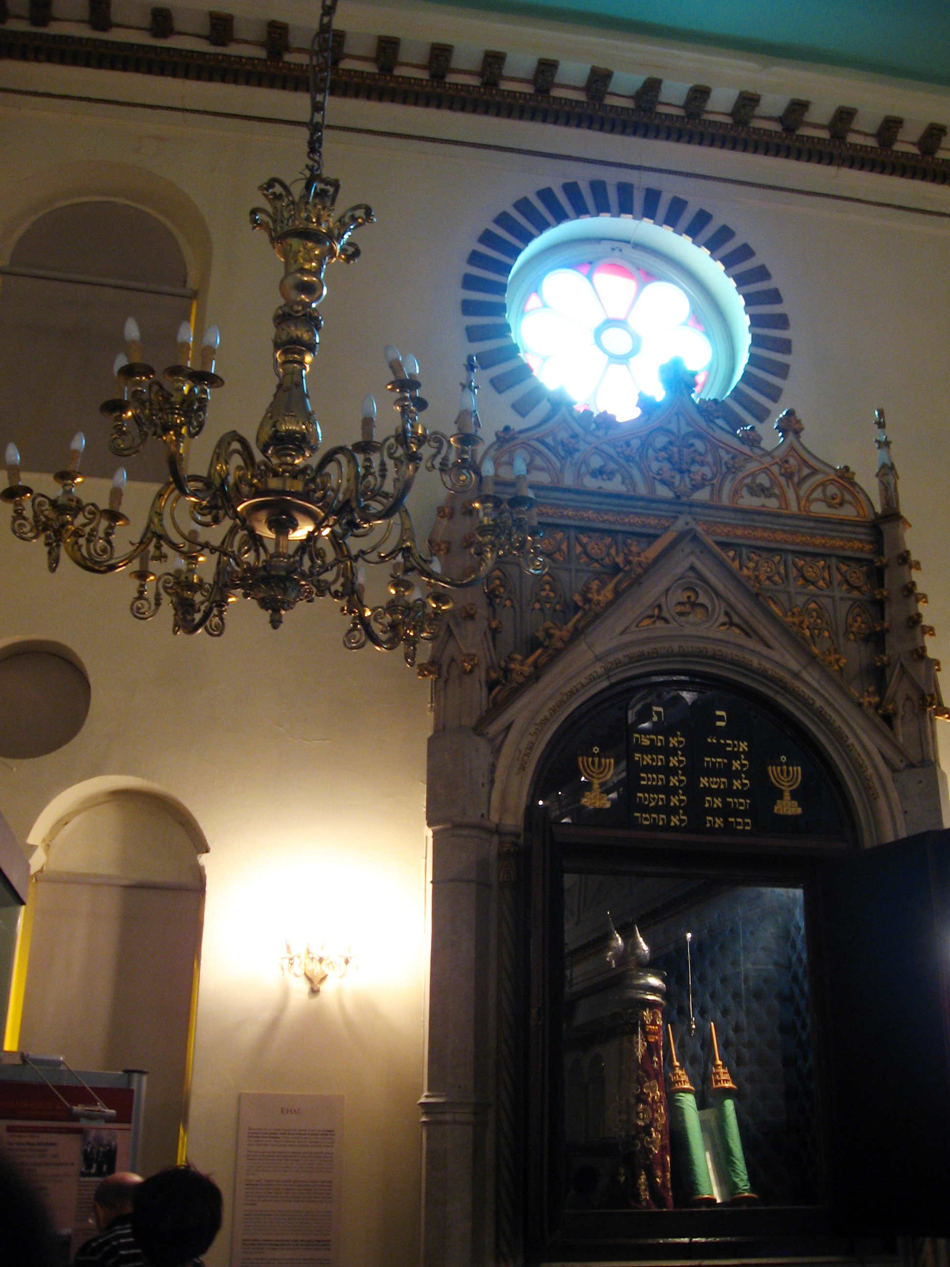 Interior view including chandelier, ehal and torah scrolls of the Jewish Museum of Turkey in Karaköy, Istanbul, formerly the Zülfaris Synagogue.